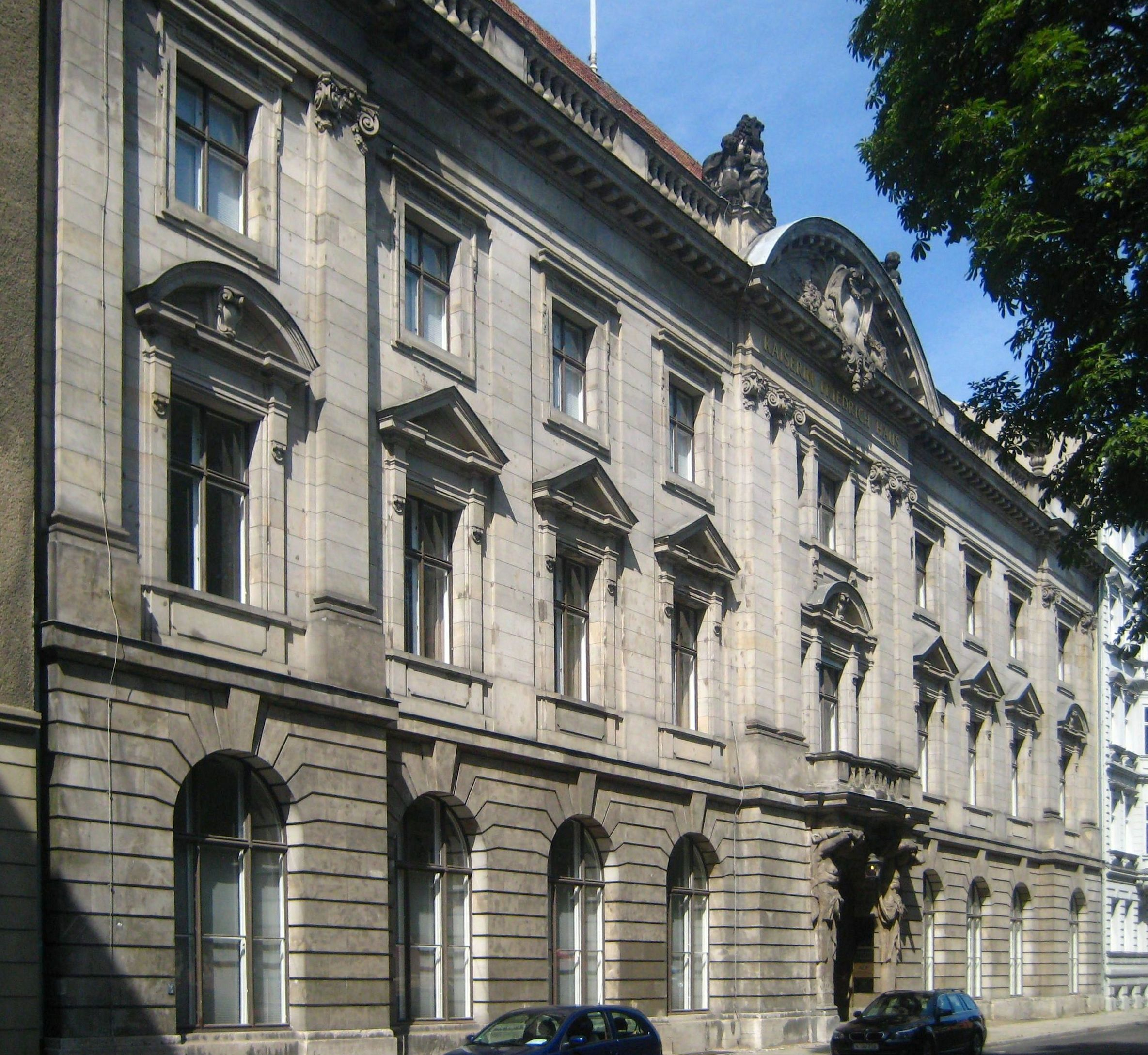 The Kaiserin-Friedrich-Haus at Robert-Koch-Platz 7 in Berlin-Mitte. It was built from 1904 to 1906 to a design by Ernst von Ihne for the Kaiserin Friedrich Foundation for the Continuing Education in Medicine. The GDR used it as seat of the Academy of Arts. It is now seat of several medical organisations. The Kaiserin-Friedrich-Haus has been designated as a historic landmark.